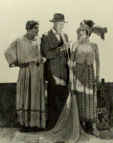 Still from the production of the American film Nero (1922) with Jacques Grétillat, director J. Gordon Edwards, and Paulette Duval, from page 75 of the August 1922 Photoplay.